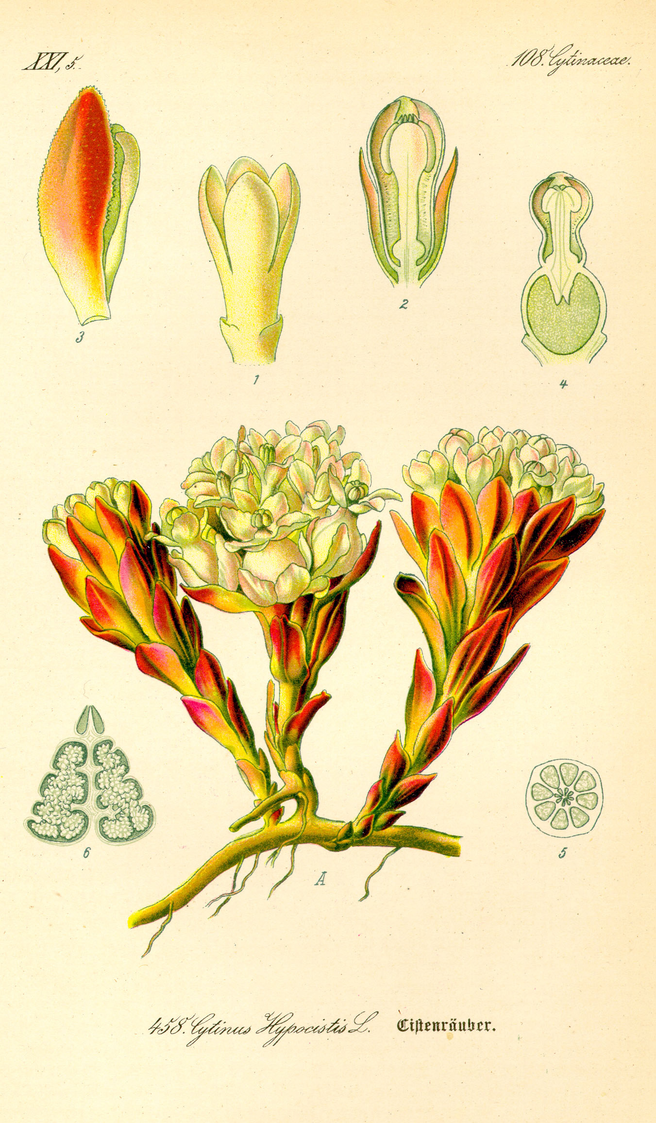 Melera (Cytinus hypocistis), also called Chupamiele or Tetica, or Cistenräuber in German, a parasitic flowering plant member of the cytinaceae family which only parasitizes cistus, or rockrose. Original inscription: XXI, 5., 108. Cytinaceae, 458. Cytinus Hypocistis L. Cistenräuber. Volume III, plate 142 in Prof. Otto Wilhelm Thomé's 4-volume compendium Flora von Deutschland, Österreich und der Schweiz (Flora of Germany, Austria and Switzerland), Gera 1885.